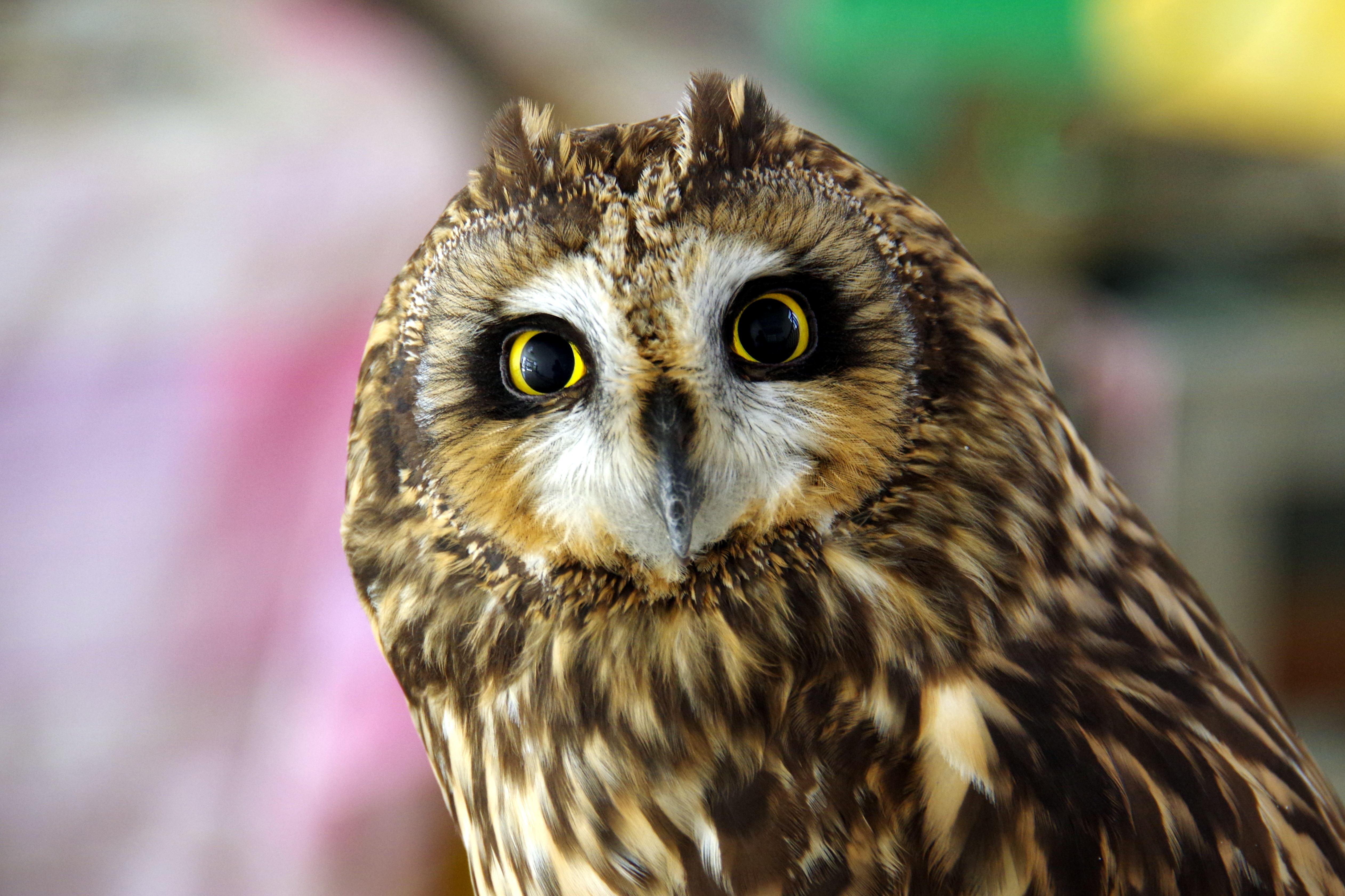 Asio flammeus